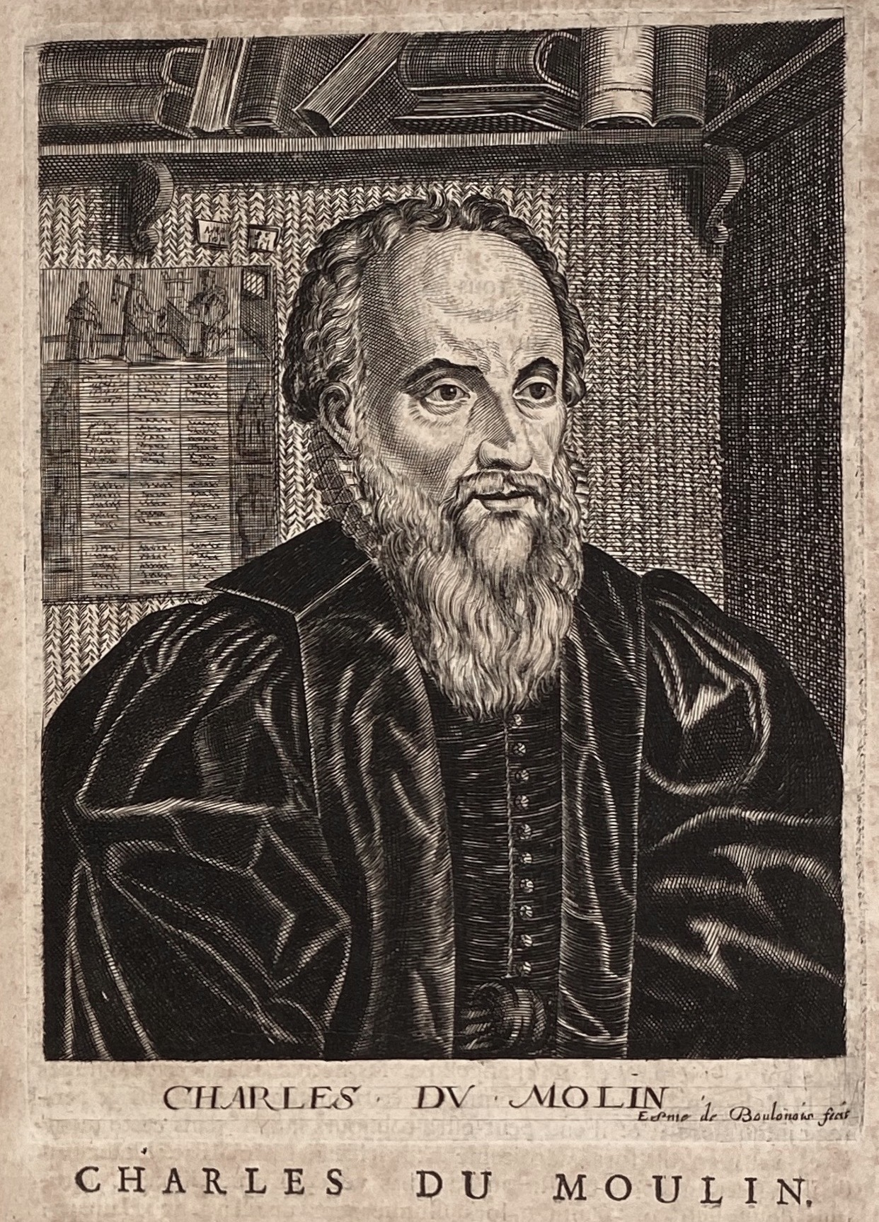 Half-length portrait of Charles Dumoulin, French jurist, engraved on a copperplate by Esme de Boulonois; from the book Académie Des Sciences Et Des Arts by Isaac Bullart, published in Amsterdam by Elzevier in 1682.